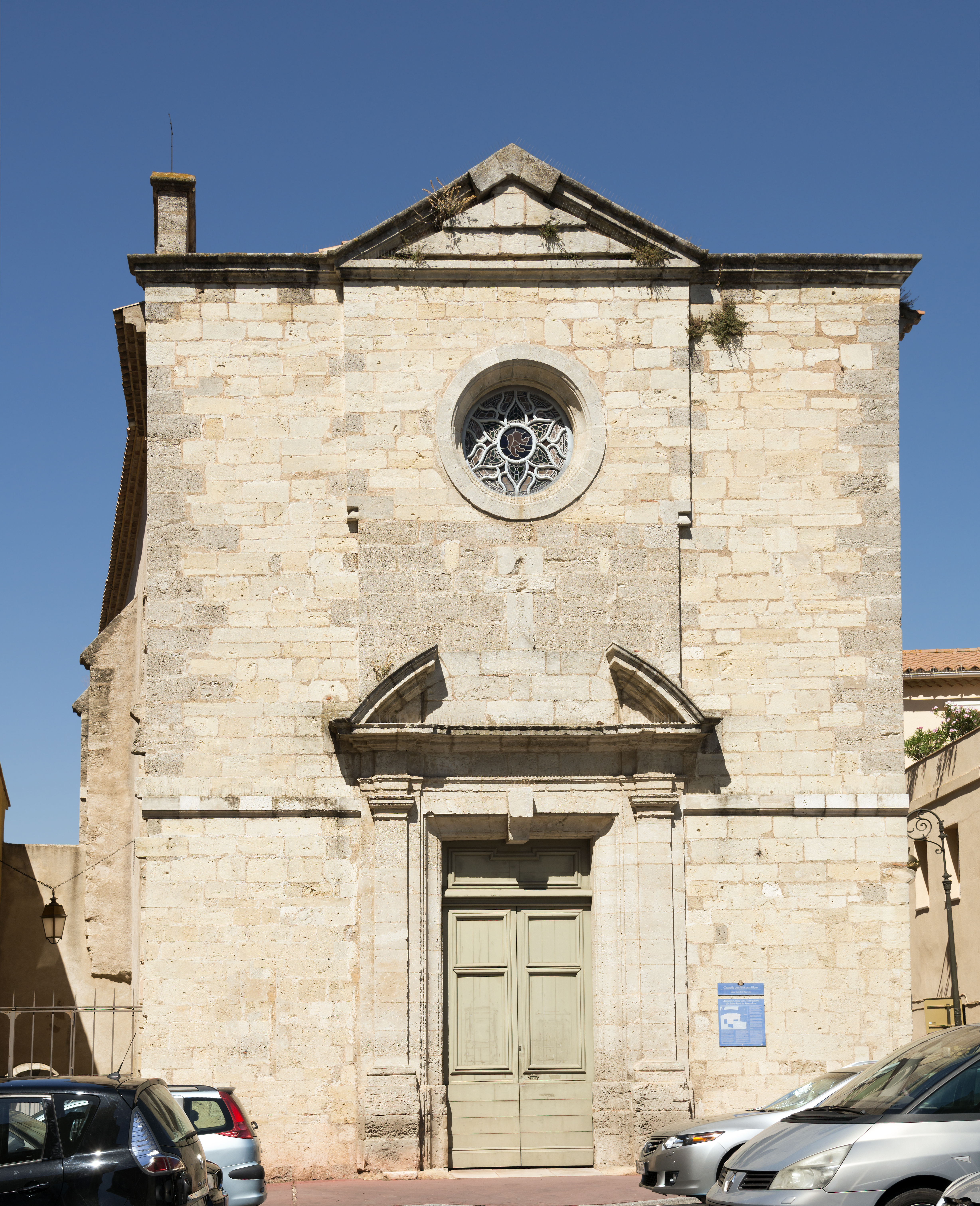 Eighteenth facade of the Chapel of the Penitents-Bleus, the former hospital Church of St. John of Jerusalem at Narbonne, Aude, France.